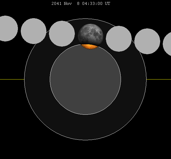 November 2041 lunar eclipse chart of moon's path through the earth's shadow. thumb